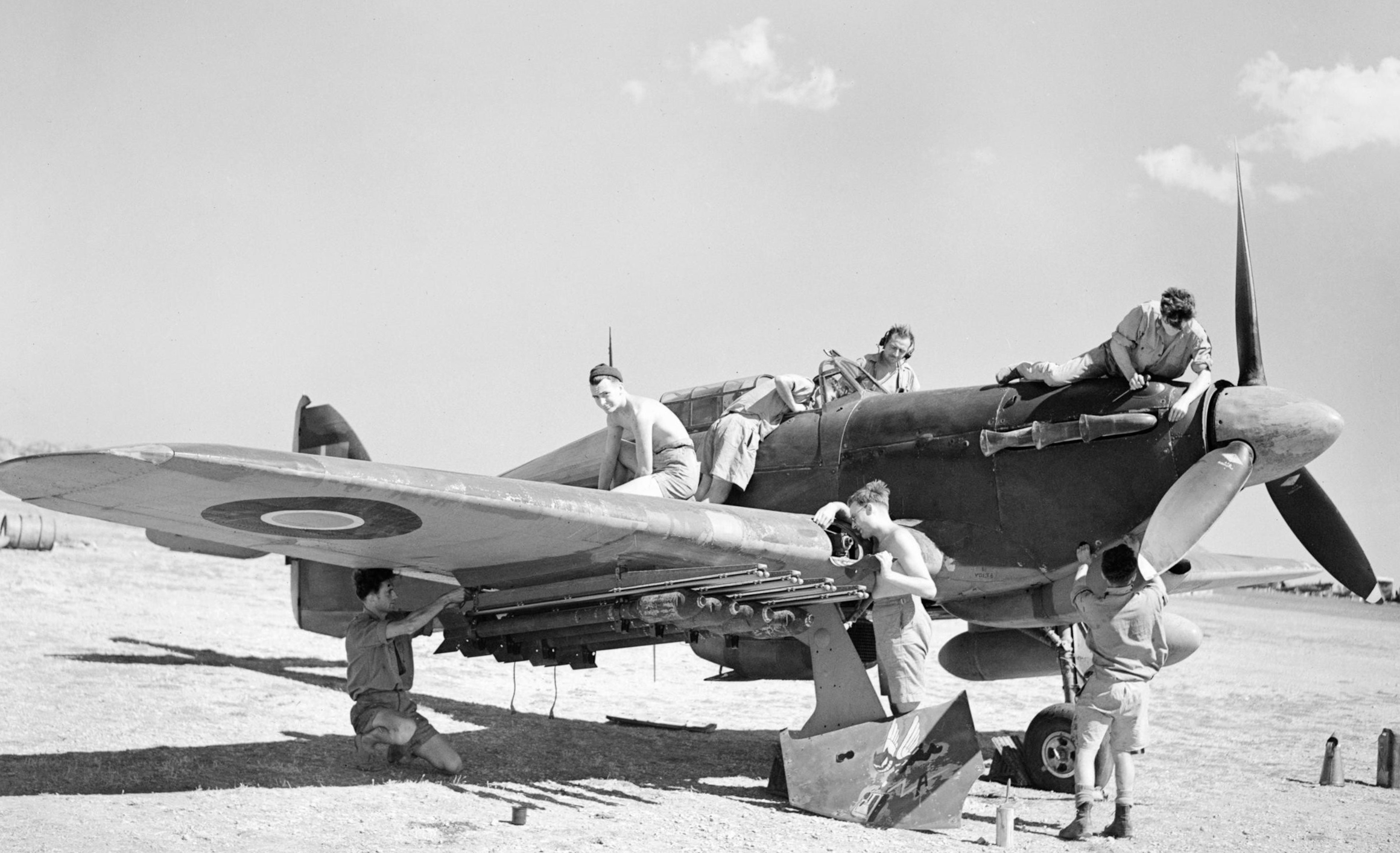 A Hawker Hurricane Mark IV of No. 6 Squadron RAF being serviced at Foggia, Italy, prior to a sortie over the Adriatic. Note the asymmetric wing loading on the aircraft, consisting of a 44-gallon long-range fuel tank under the port wing, and four 3-inch rocket projectiles under the starboard: also the Type G45 gun camera being serviced by the airman standing second from the right. Propped up by the starboard undercarriage is the port lower engine access panel, on which is painted the pilot's personal emblem.